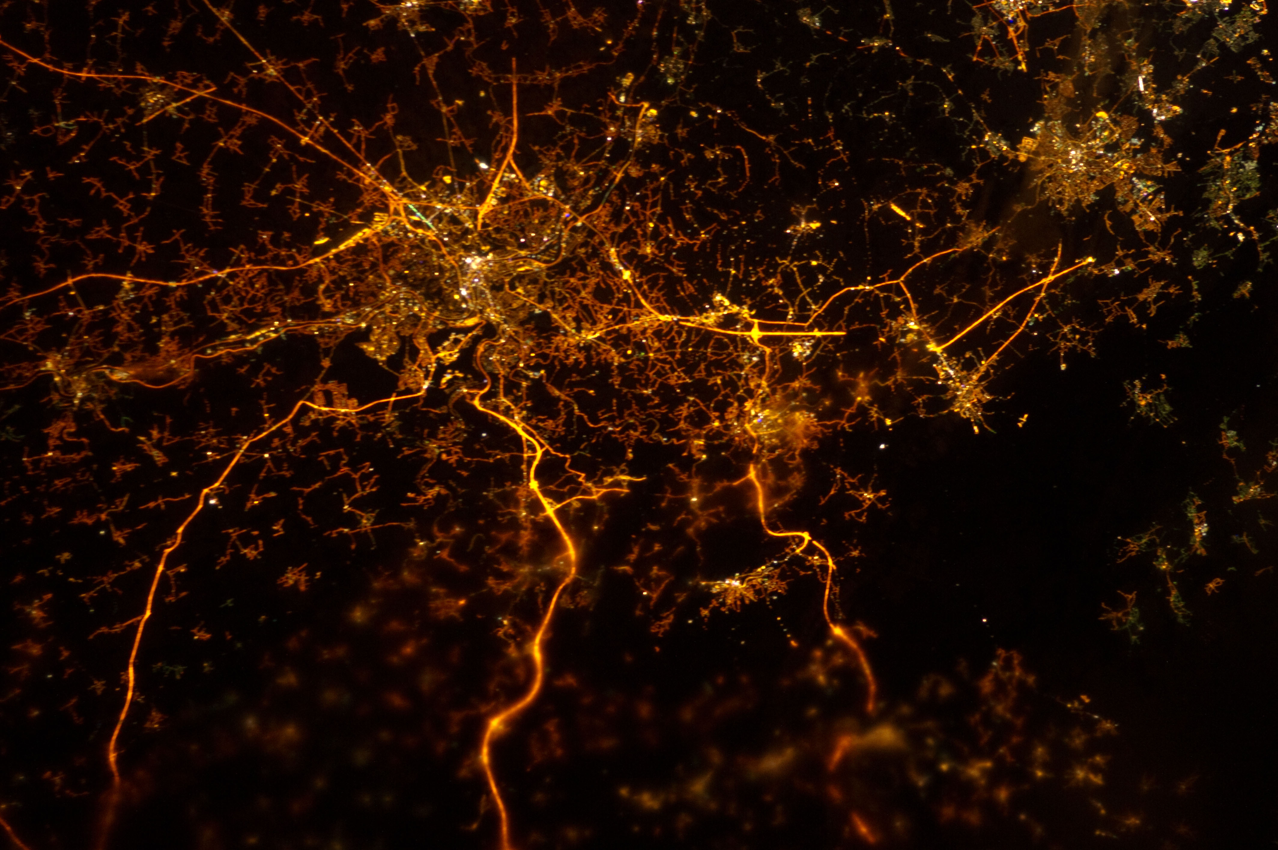 Liege at night. North is above, and the city on the right is Aachen in Germany